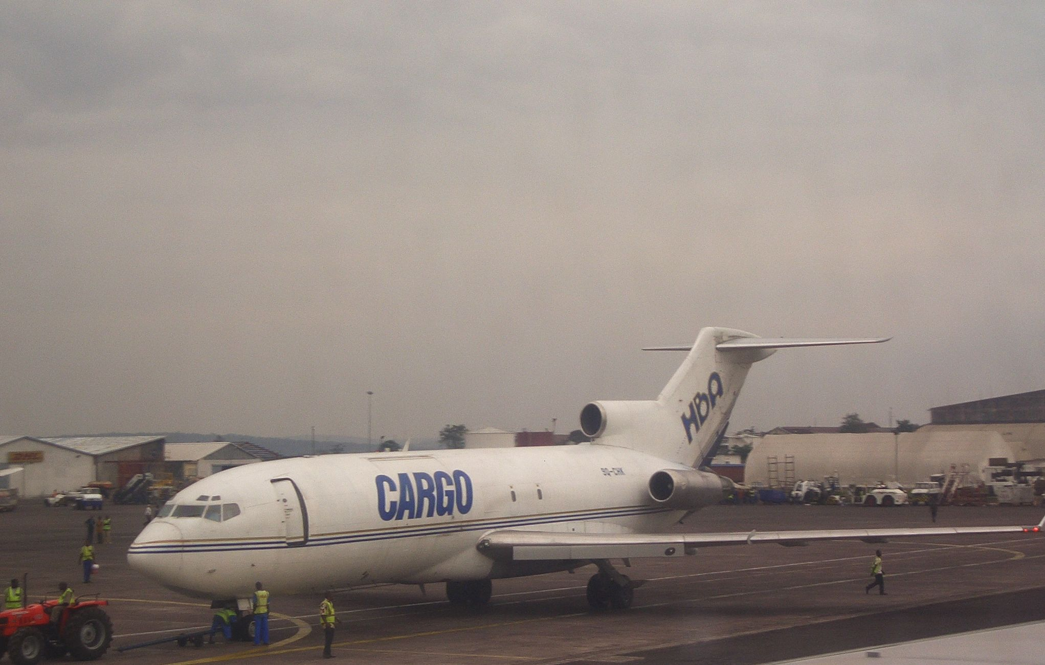 The only cargo Boeing 727-29(F) owned by Hewa Bora Airways, 9Q-CHK, here at Kinshasa International Airport.